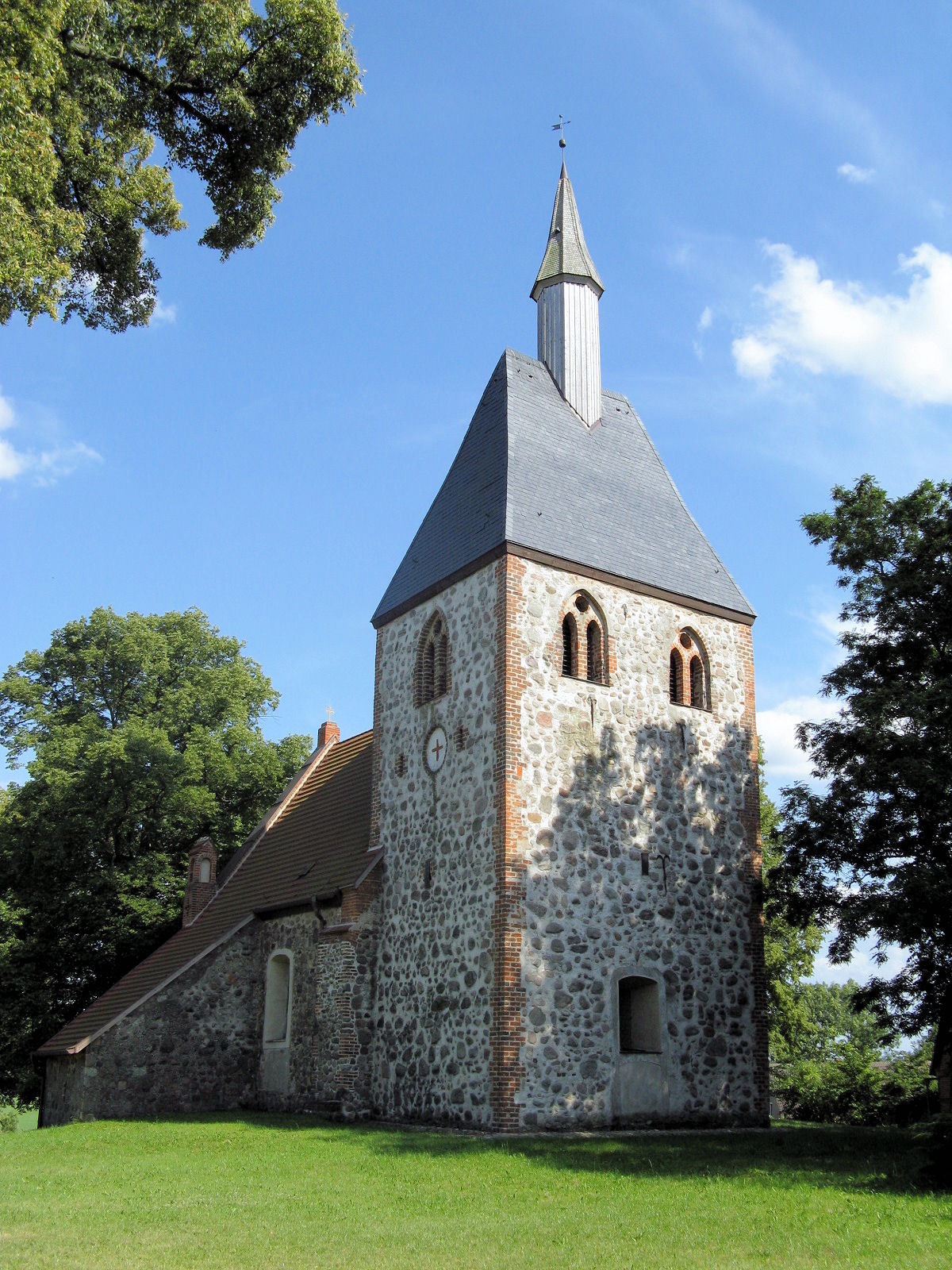 Church in Kambs, disctrict Mecklenburgische Seenplatte, Mecklenburg-Vorpommern, Germany